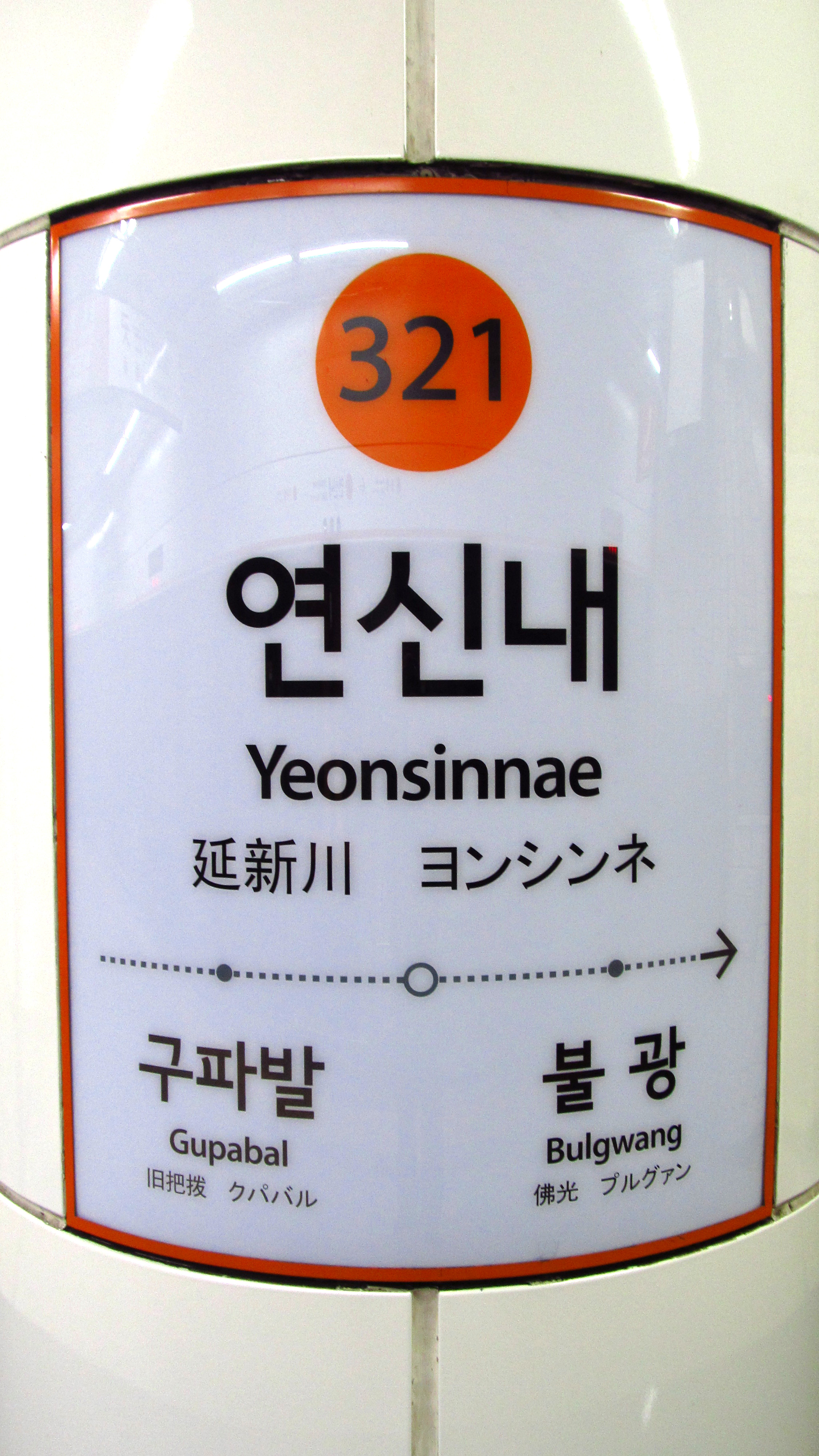 A sign of Yeonsinnae Station on Seoul Subway Line 3